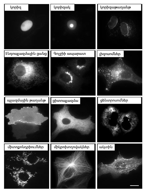 Picture of protein_localisation in cells with Armenian description